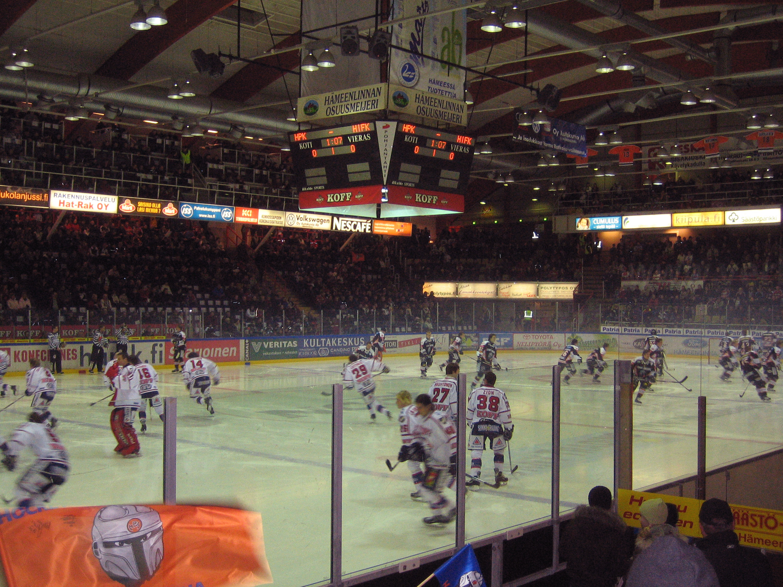 HPK and HIFK players warm up before the game in Hämeenlinna, March 2nd 2006.